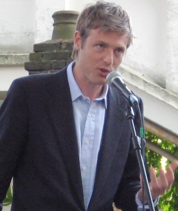 Environmentalist Zac Goldsmith at a rally near the Kew Gardens station in June 2008.